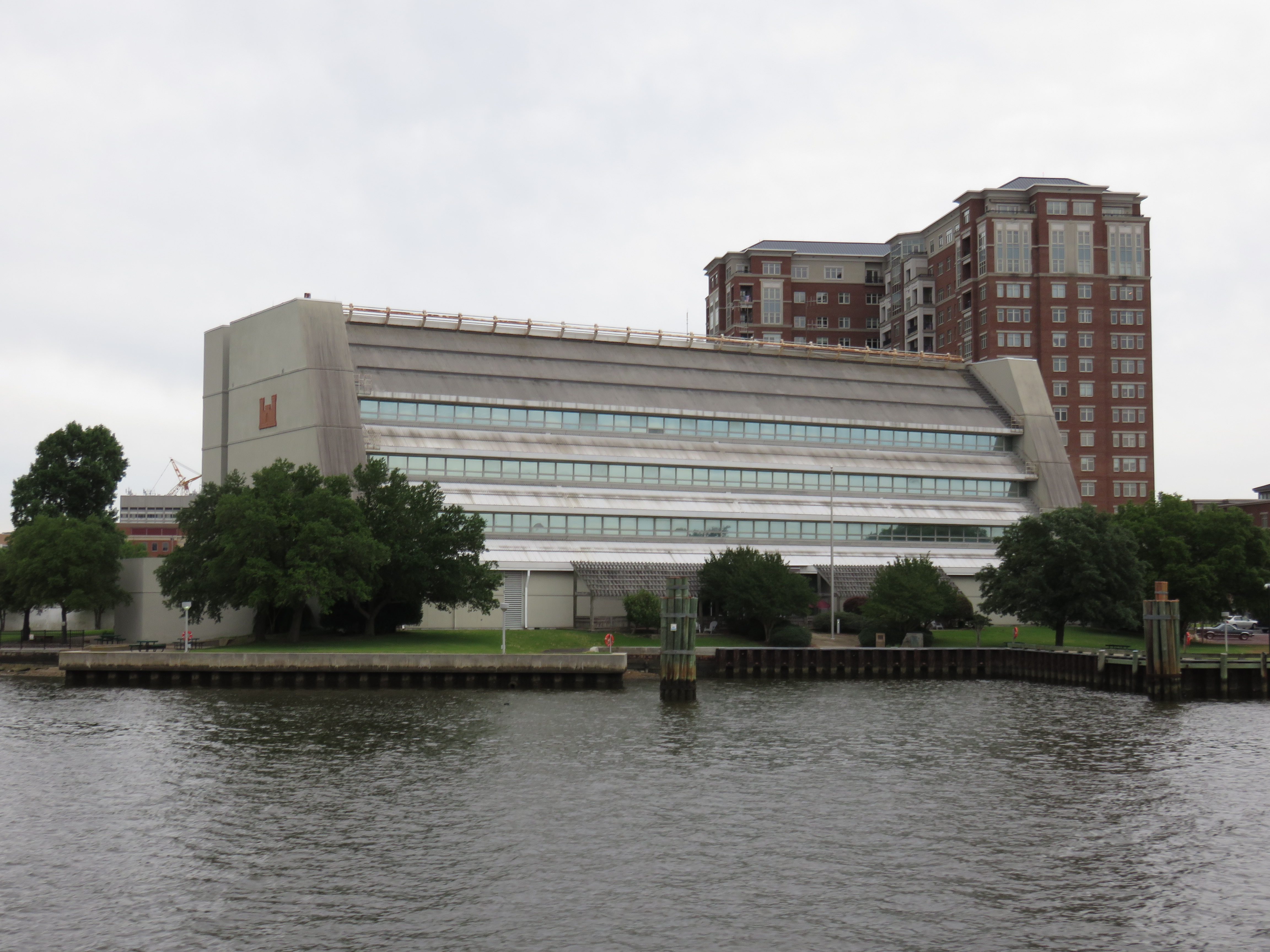 United States Army Corps of Engineers headquarters in Norfolk, Virginia in 2016